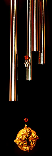 Windchimes.